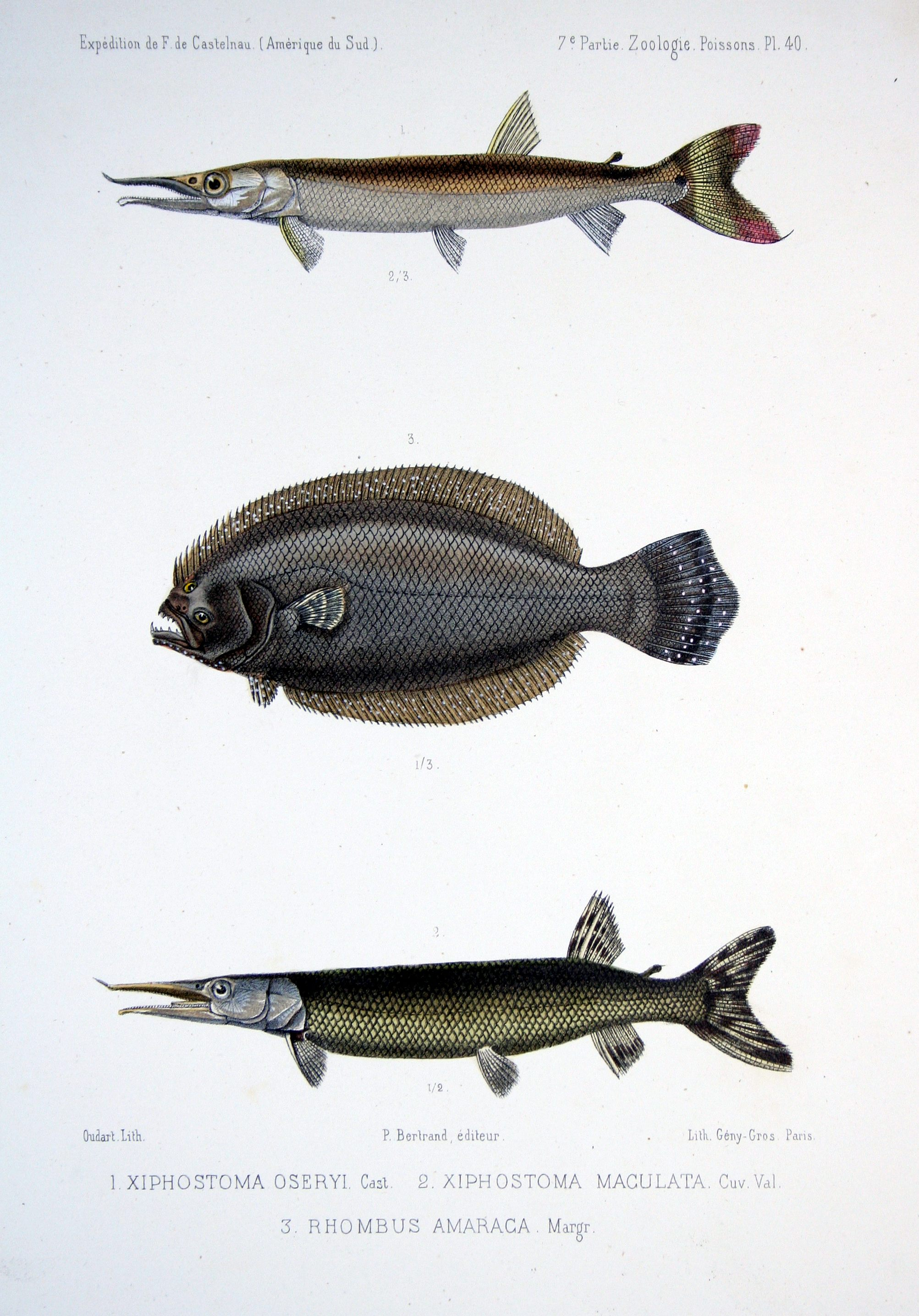 From top to bottom: Xiphostoma oseryi = Boulengerella cuvieri Rhombus amaraca = Paralichthys brasiliensis Xiphostoma maculata = Boulengerella maculata